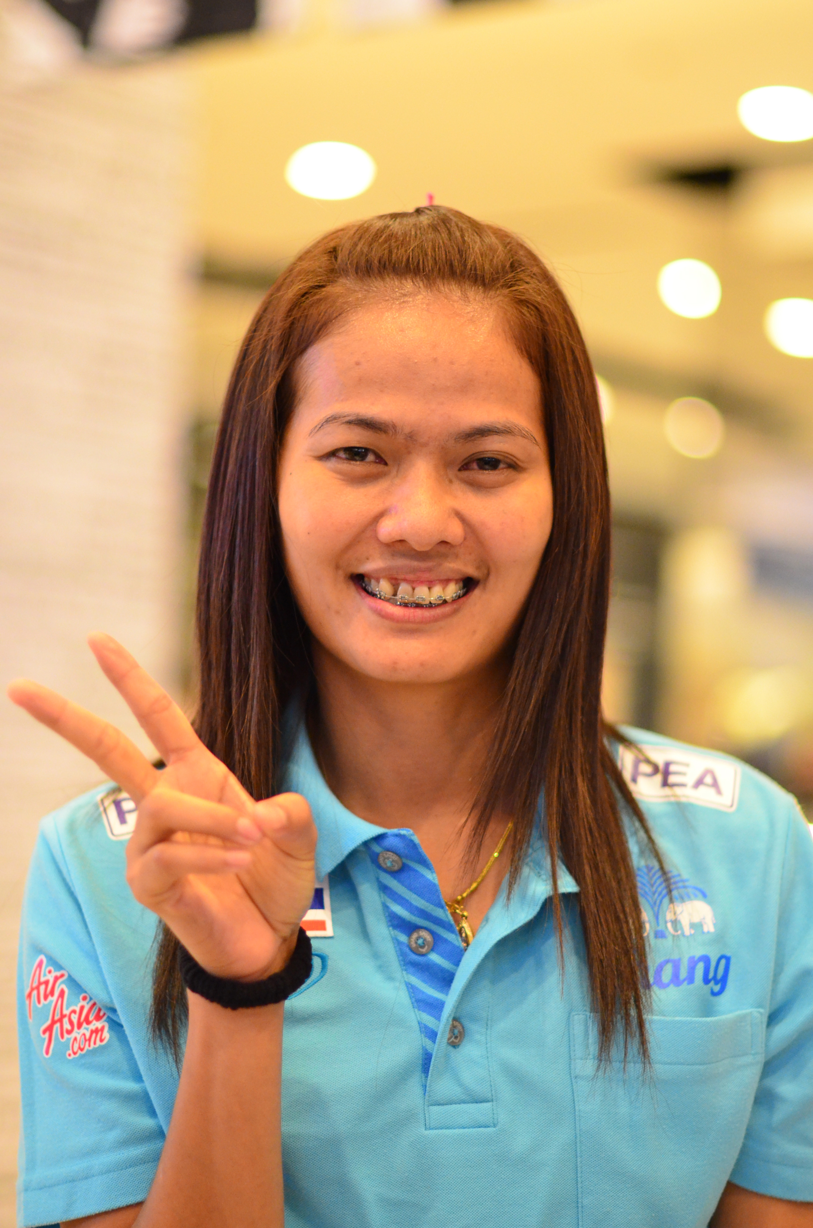 Wanna Buakaew